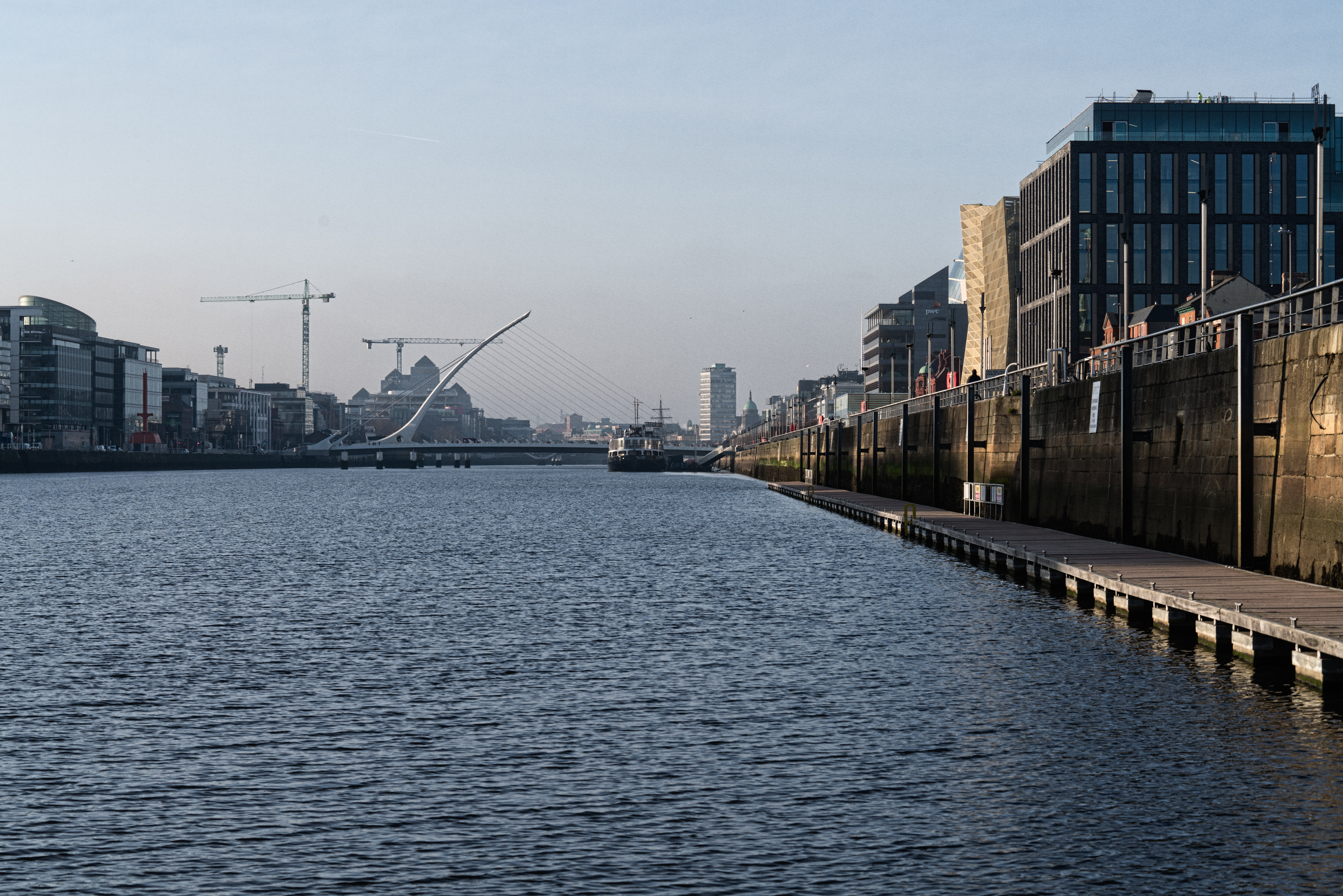 This has to be the most photographed bridge in Ireland. The bridge joins Sir John Rogerson's Quay on the south side of the River Liffey to Guild Street and North Wall Quay in the Docklands area. The architect is Santiago Calatrava, a designer of a number of innovative bridges and buildings. This is the second bridge in the area designed by Calatrava, the first being the James Joyce Bridge, which is further upstream. Constructed by a "Graham Hollandia Joint Venture", the main span of the Samuel Beckett Bridge is supported by 31 cable stays from a doubly back-stayed single forward arc tubular tapered spar, with decking provided for four traffic and two pedestrian lanes. It is also capable of opening through an angle of 90 degrees allowing ships to pass through. This is achieved through a rotational mechanism housed in the base of the pylon. The shape of the spar and its cables is said to evoke an image of a harp lying on its edge. NOTE: The harp is the national symbol for Ireland from as early as the thirteenth century [I bet that you all thought that it was the shamrock].